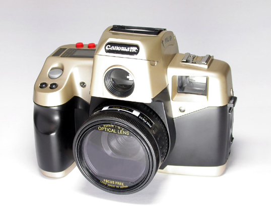 "Canomatic" camera with viewfinder. (Note: this is not a Canon camera- it is produced by the Chinese company Ouyama, and according to the German Wikipedia article Ouyama, Canon consider it a counterfeit and have acted accordingly.)